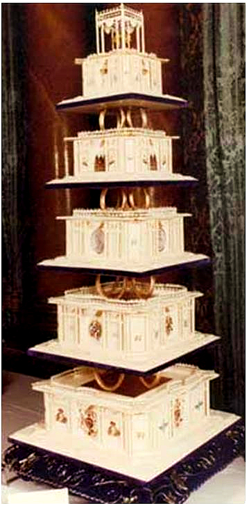 This is a the cake supplied to the Royal Family by Andrew Davidson of Classic Celebration Cakes